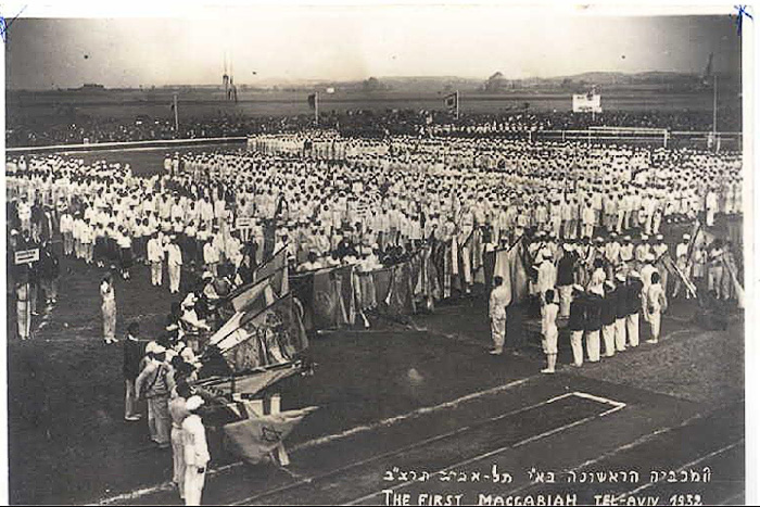 The ceremonies of the first Maccabiah in 1932